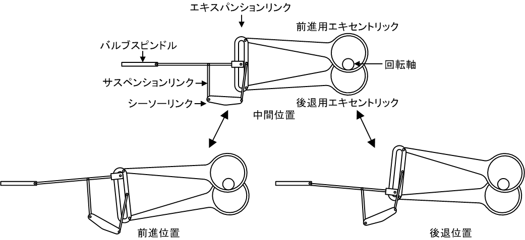 A figure used for explanation of Allan valvegear, with Japanese comment